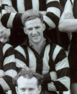 Photo of Ken Herbert from 1942-1945